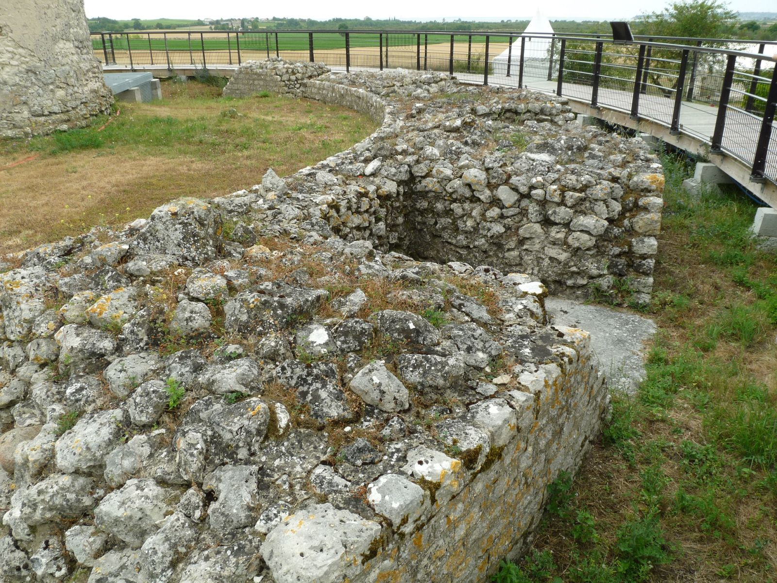 Ruins of a Gallo-roman city at Barzan (Novioregum?), Charente-Maritime, SW France. Temple circular base ("cella", diameter 15m) with holes for the columns.